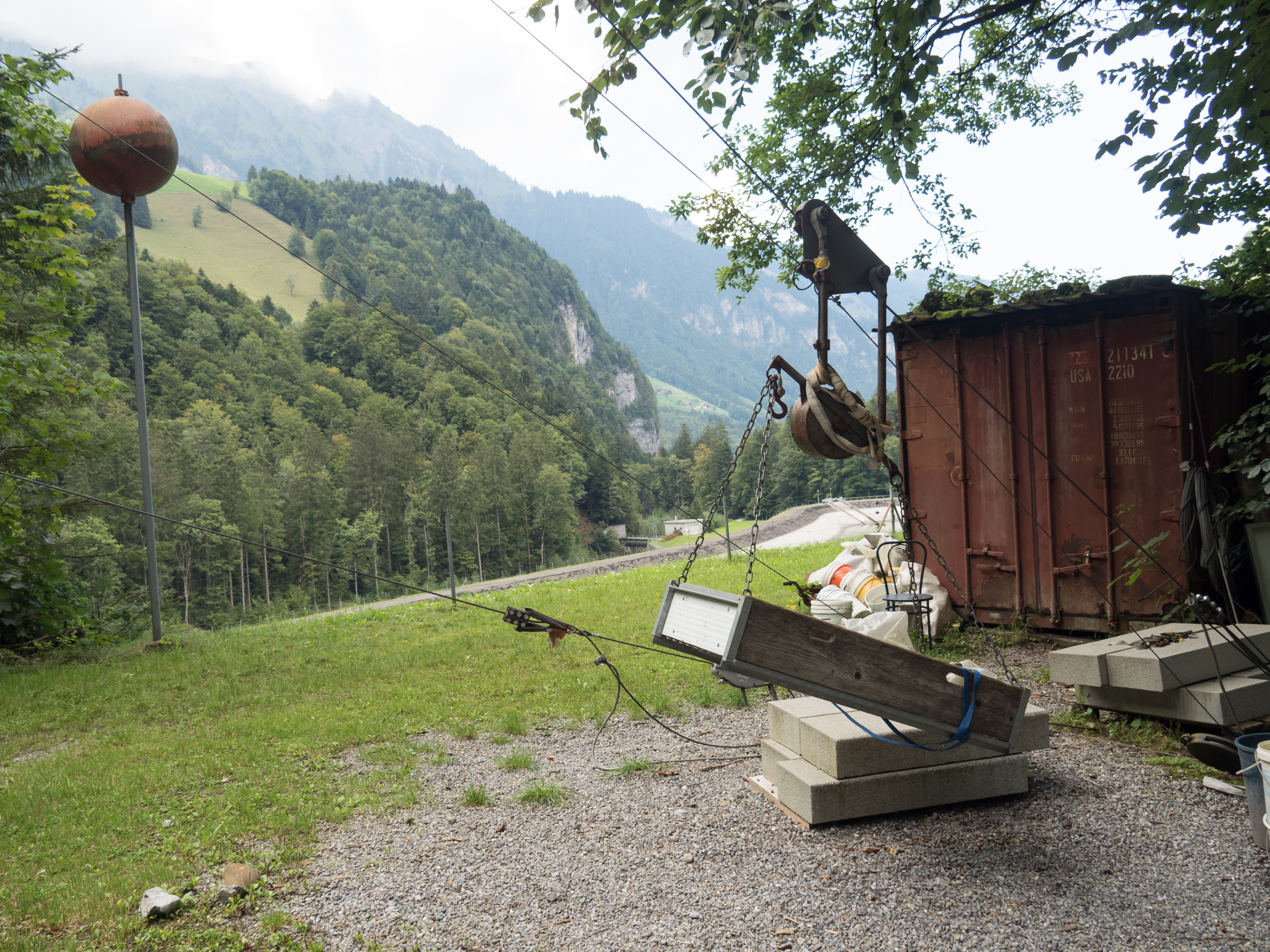 Material Aerial Cableway over the Engelberger Aa, Engelberg OW - Wolfenschiessen NW, Switzerland